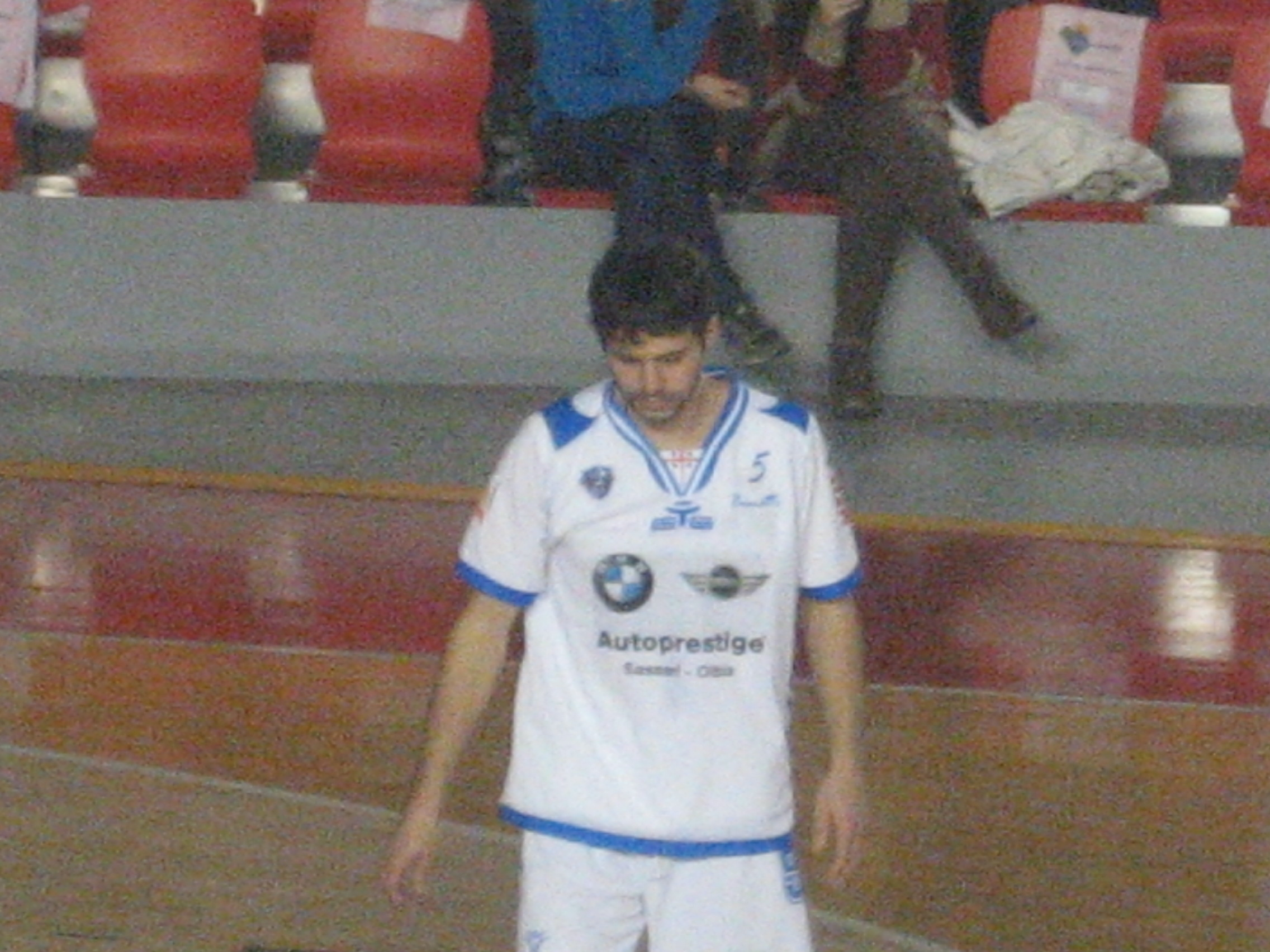 Tony Binetti on warm-up pre-match